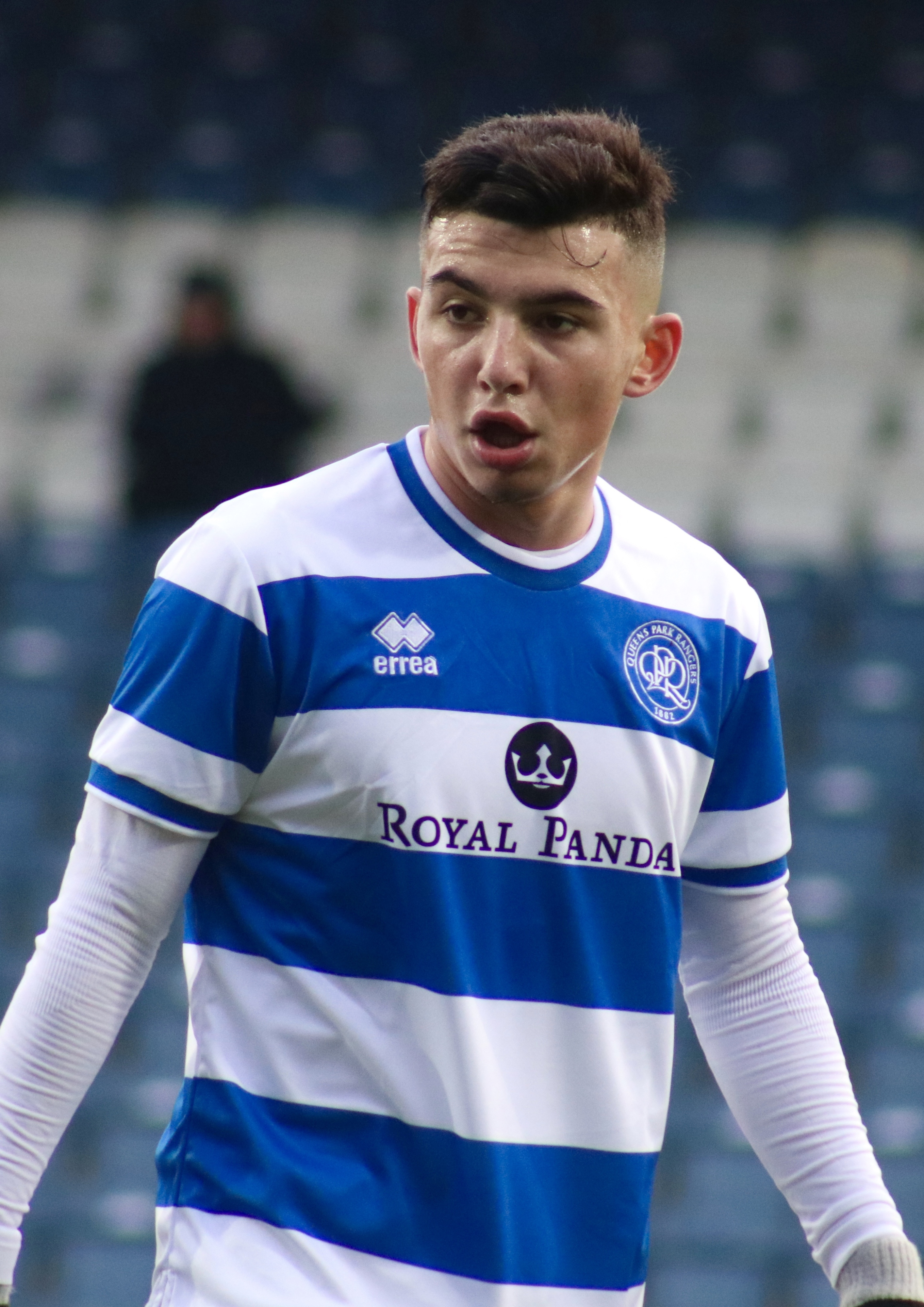 Ilias Chair in action for QPR